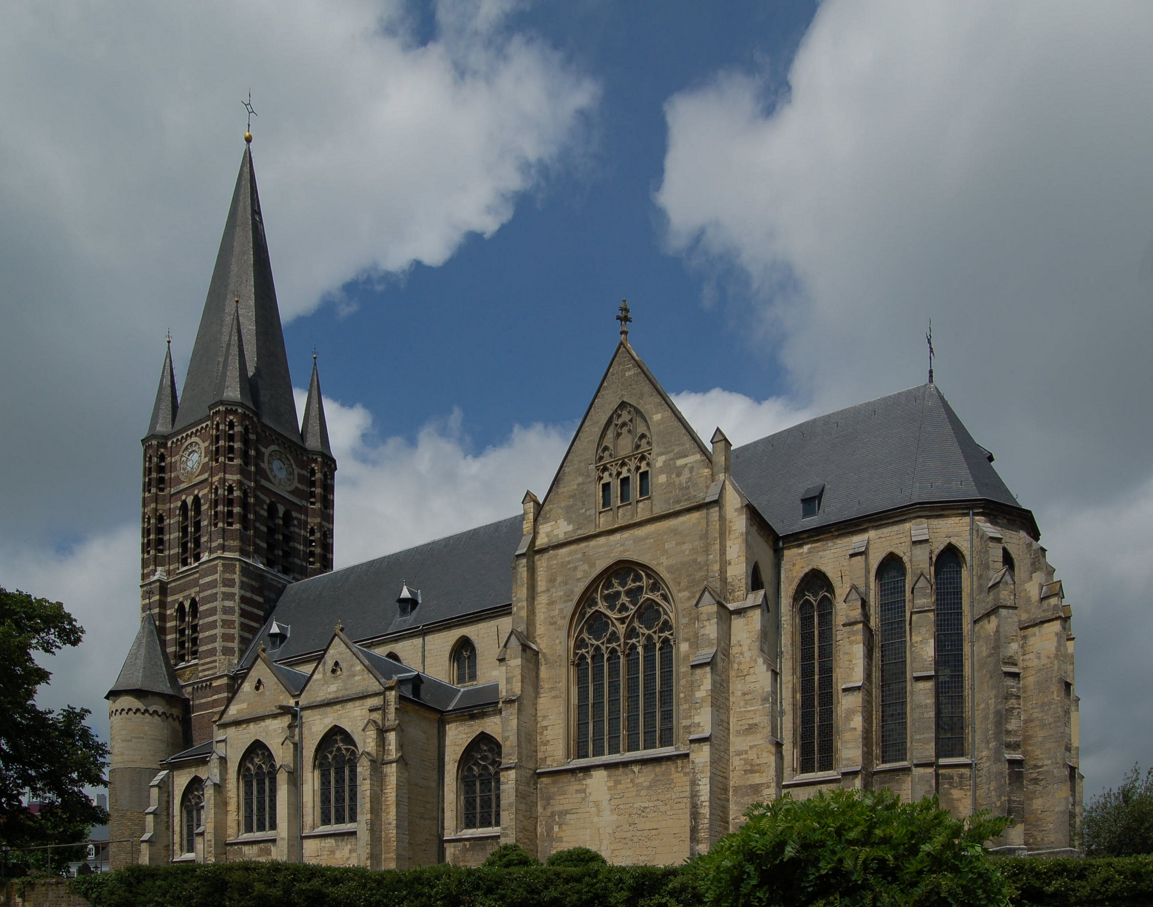 The Church of the Abbey in Thorn, the Netherlands, a former Reichsstift (imperial monestary) of the Holy Roman Empire